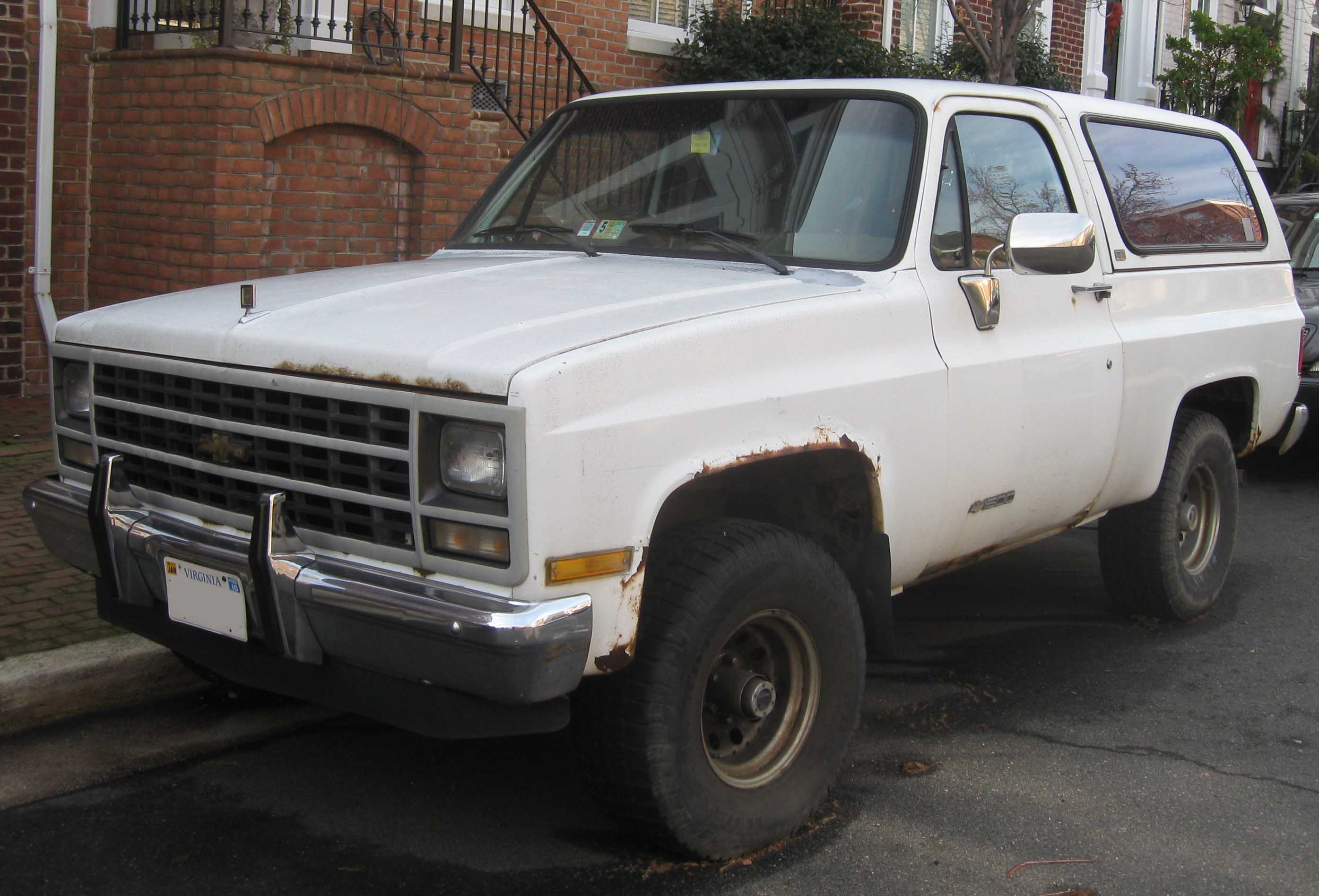 1989-1991 Chevrolet K5 Blazer photographed in Alexandria, Virginia, USA.